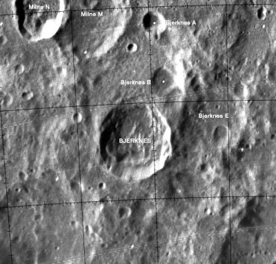 Bjerknes crater